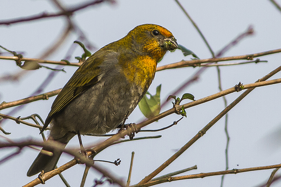 This file has been published in my Facebook profile. The same file yet to be shared in Oriental Bird Club images and India biodiversity portal. This is a female. Male birds are bright crimson red rather than yellow.